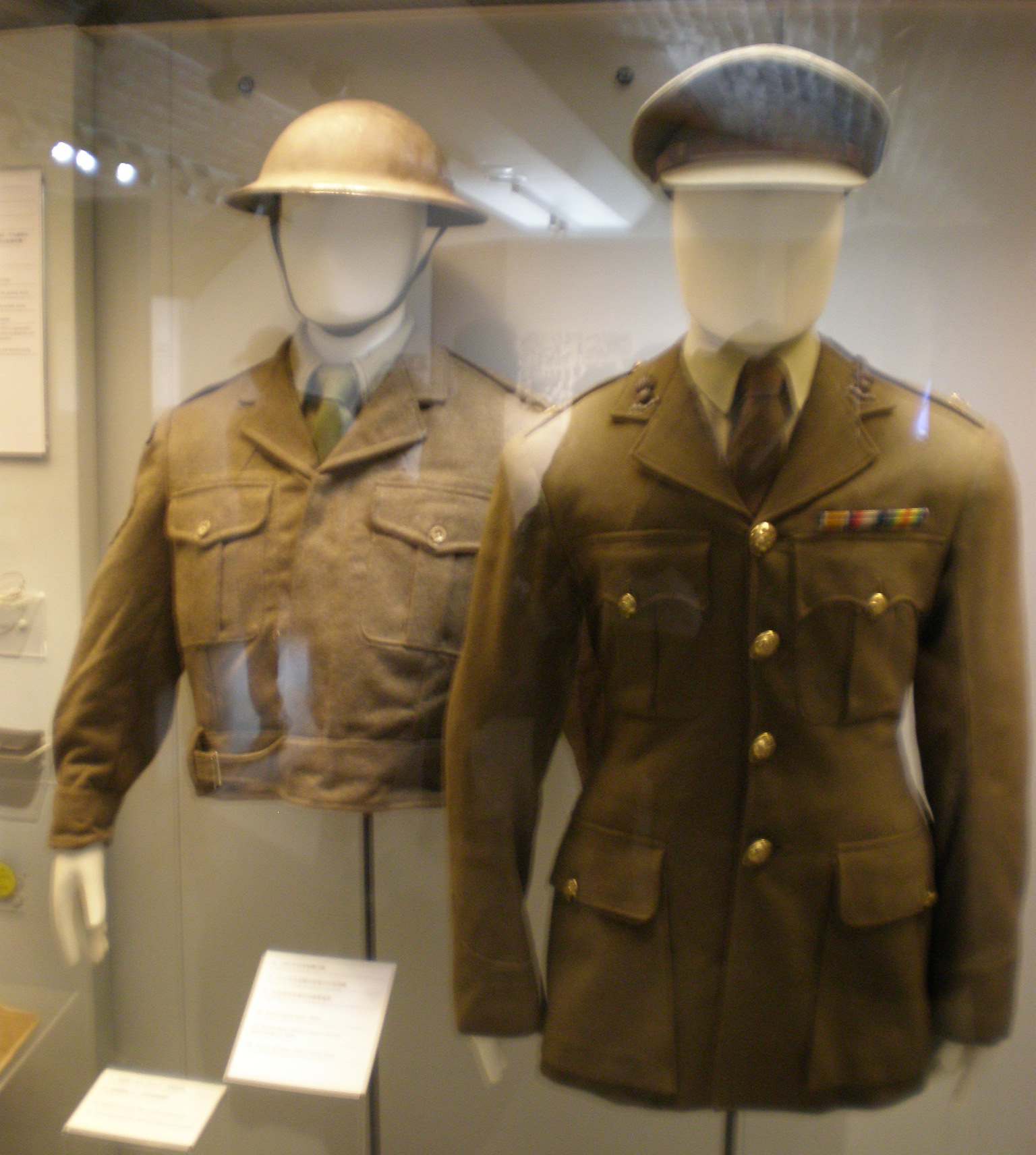 British battle dress from the 1940s and a Royal Artillery major's service dress uniform from the 1930s on display at the Hong Kong Museum of Coastal Defence.